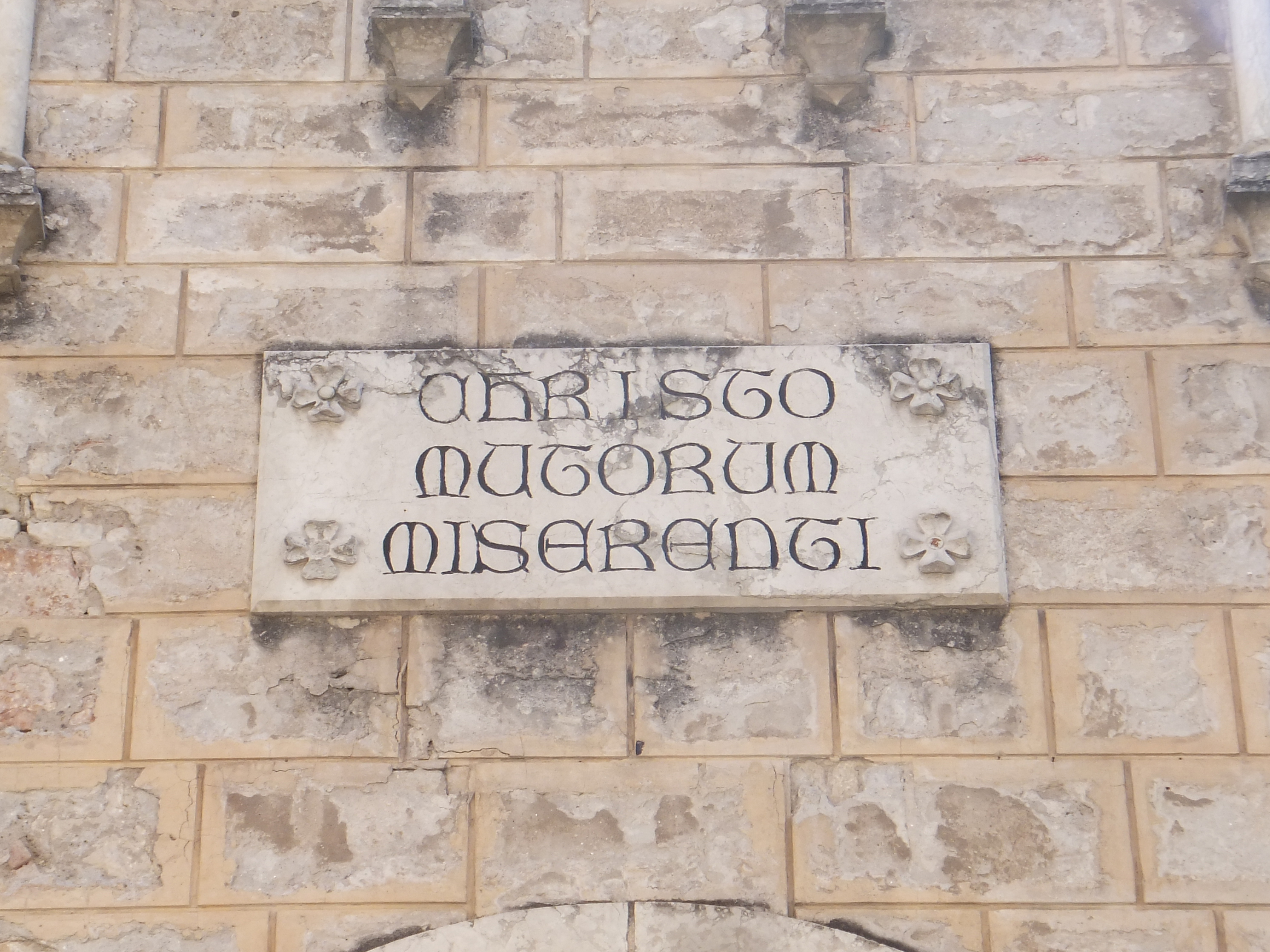 Trento, church of the Redeemer - Inscription on the facade ("Christo muturum miserentis)